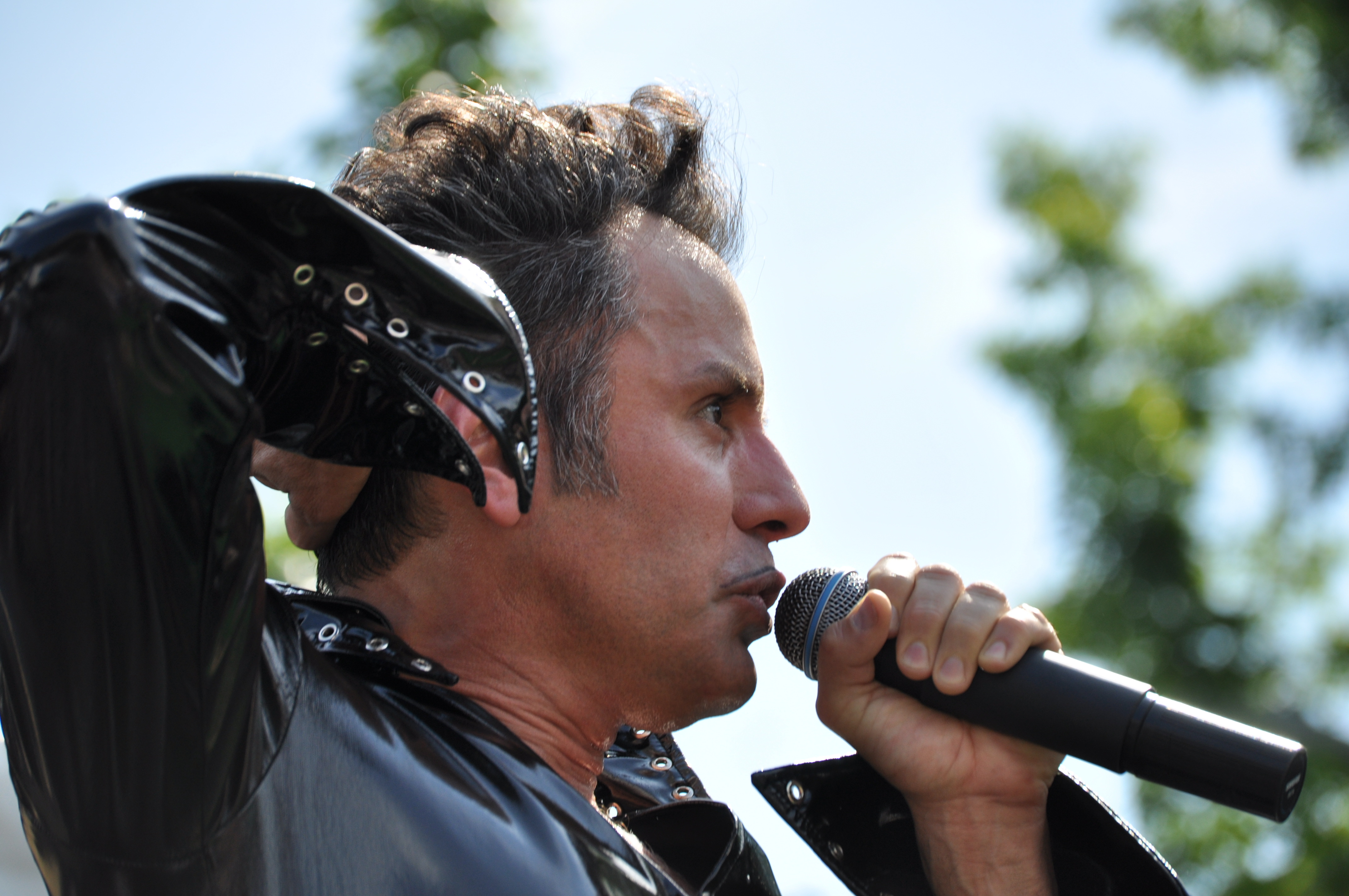 El Vez performing at the Ballard Seafood Festival, Ballard, Seattle, Washington.